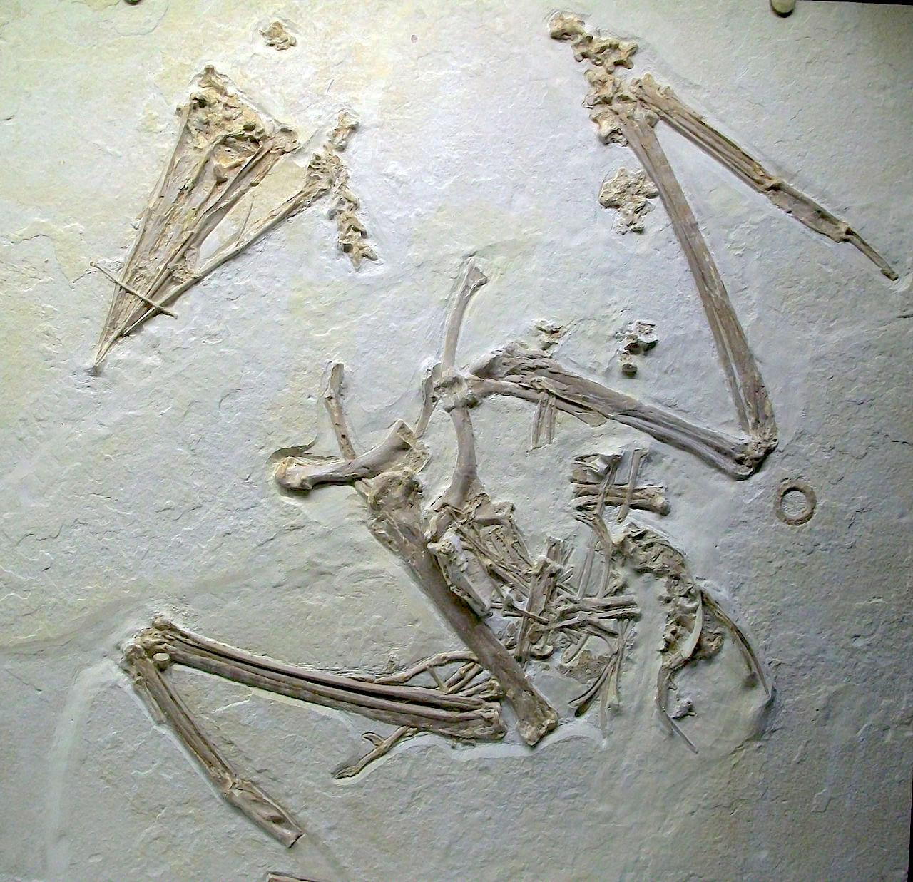 Skeleton of Limnofregata azygosternon in the Field Museum of Natural History.